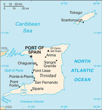 Map of Trinidad and Tobago.